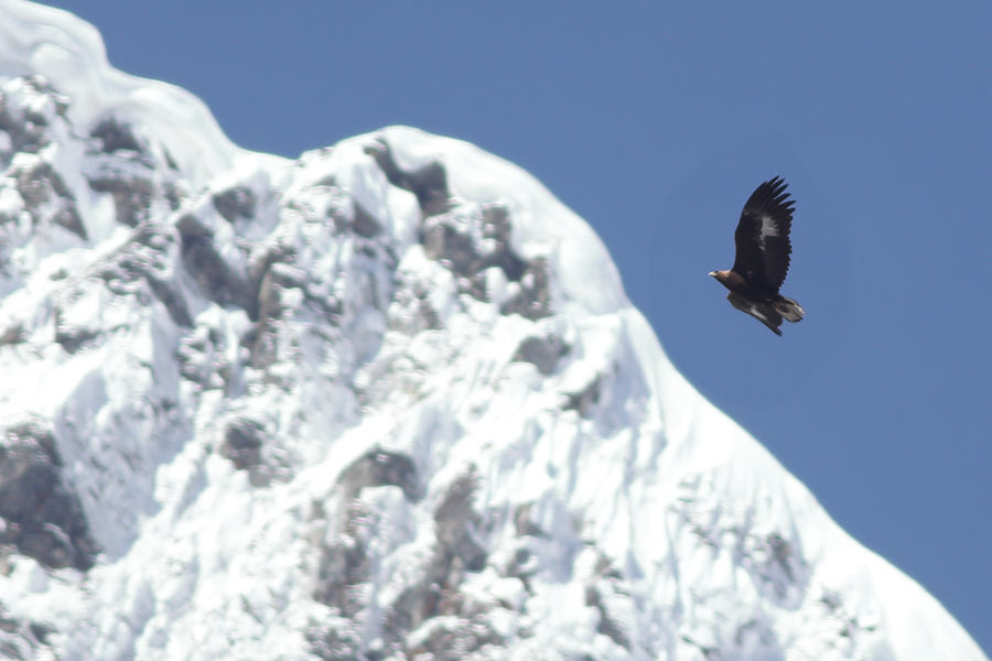 This Golden Eagle was photographed from Singba Rhododendron Sanctuary in North Sikkim, India on 02.04.2019 during GoingWild's (w bird watching tour.